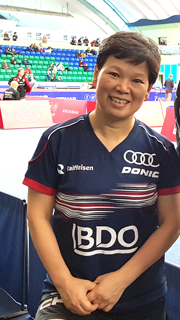 Ni Xialian on 2018 ITTF Challenge Belgosstrakh Belarus open